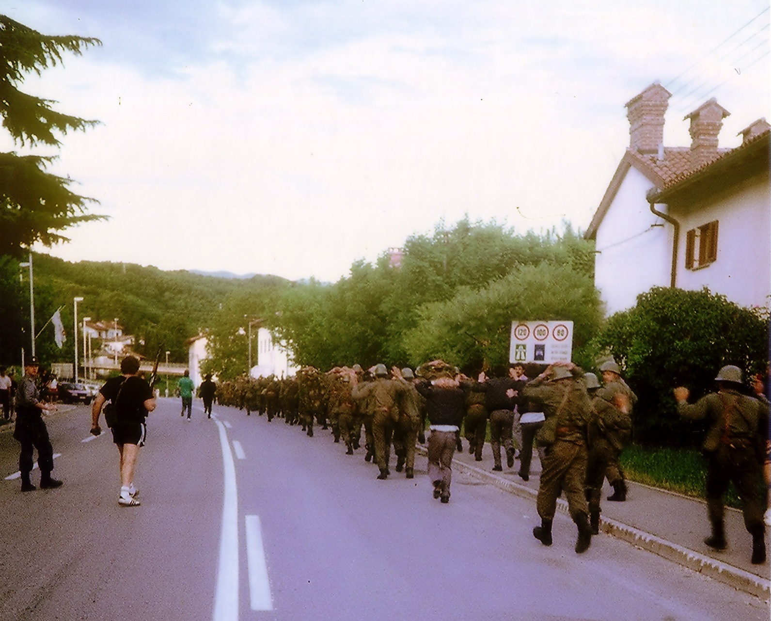 Slovene policemen and civilians are leading surrendered soldiers of the Yugoslav People's Army